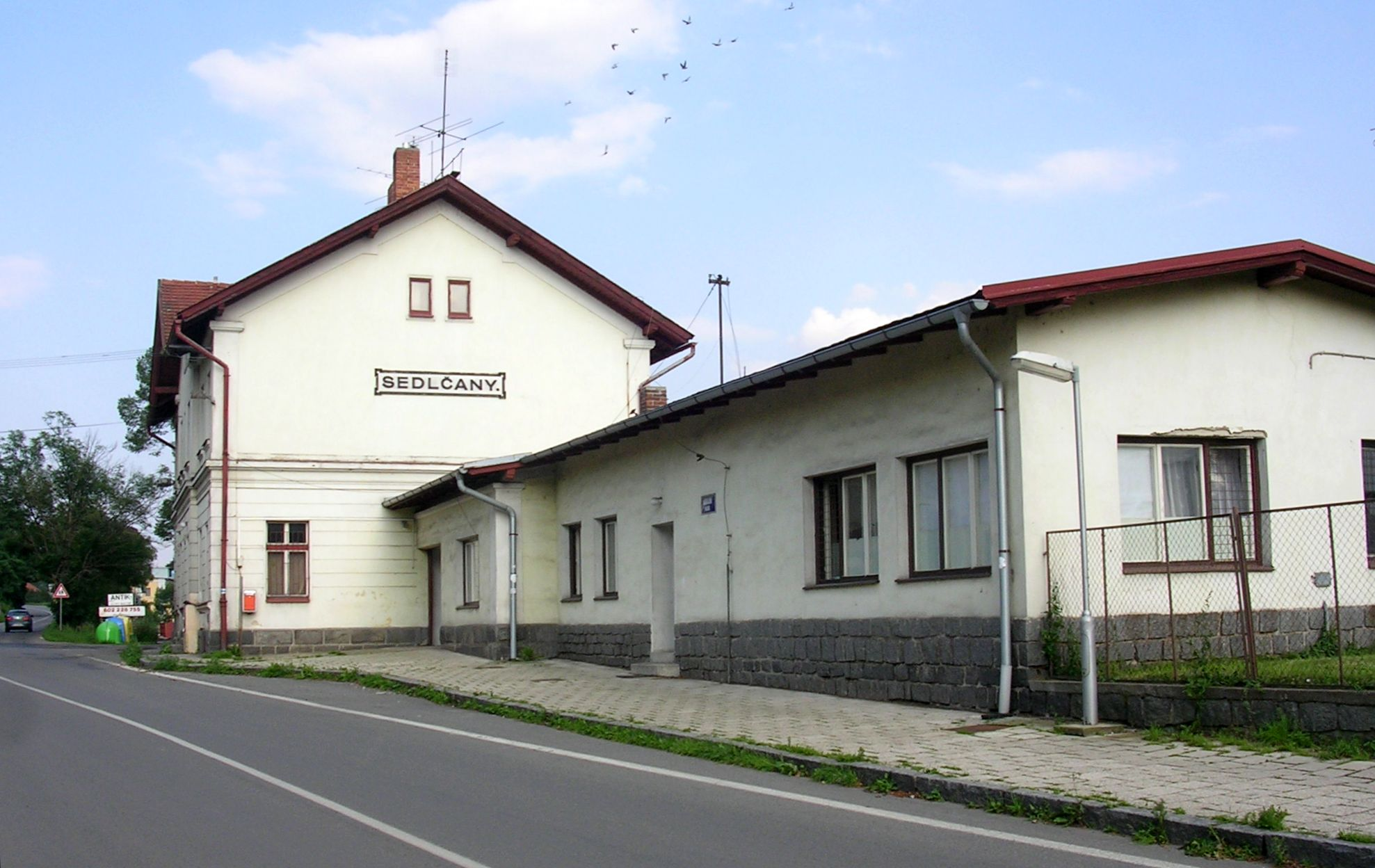 Sedlčany, Příbram District, Central Bohemian Region, the Czech Republic. The train station.